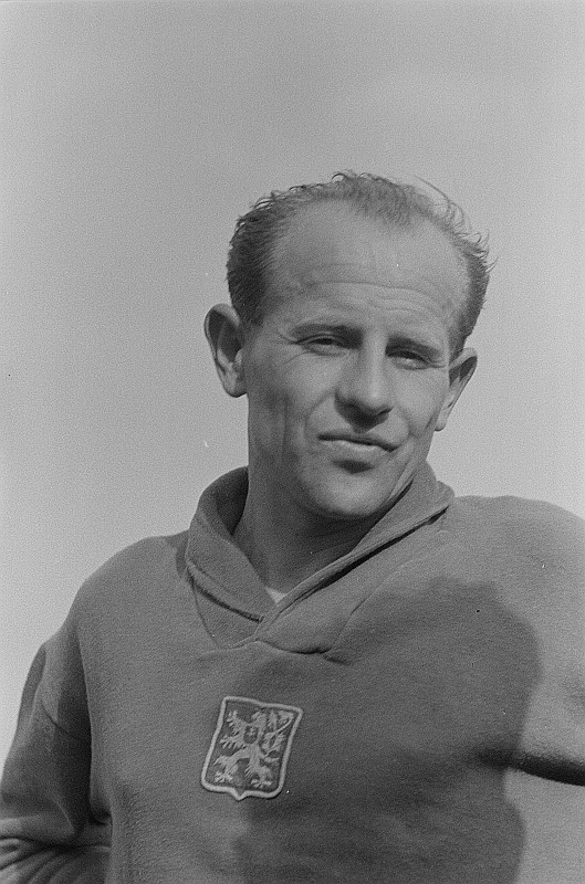 Original image description from the Deutsche Fotothek Emil Zátopek